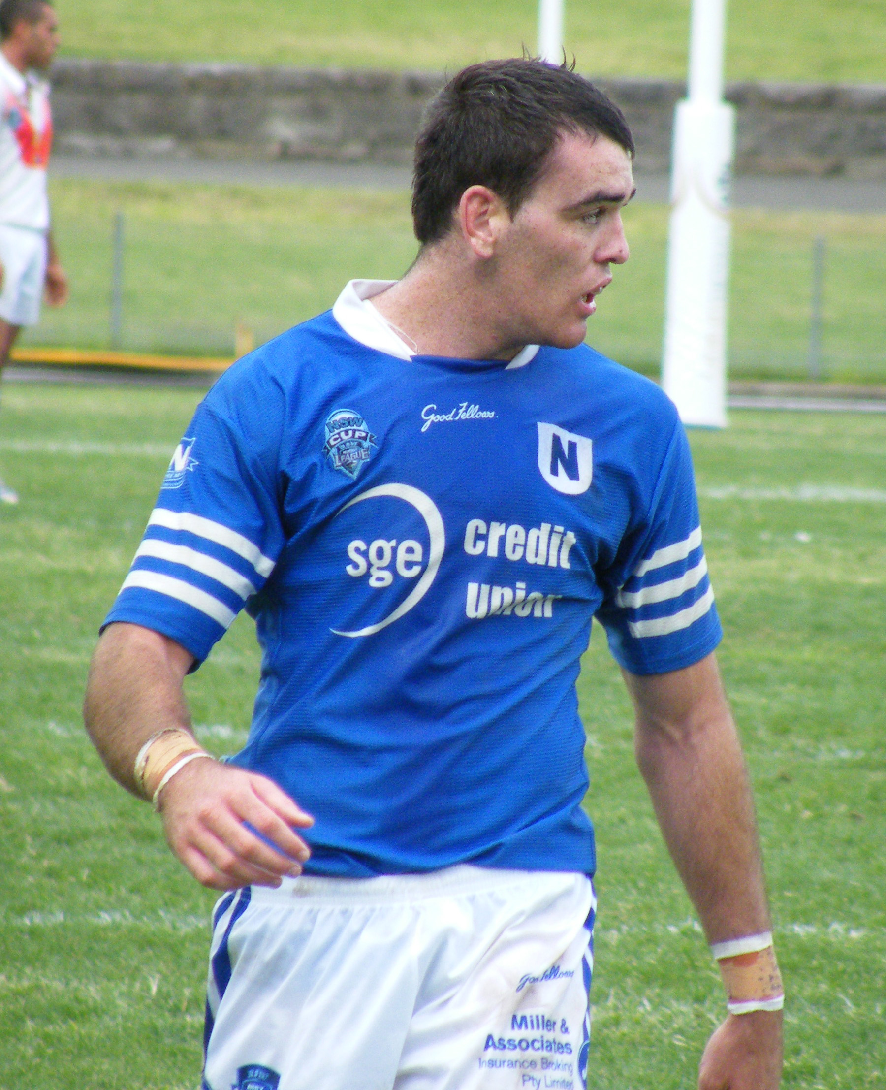 Kane Linnett of the Newtown Jets RLFC